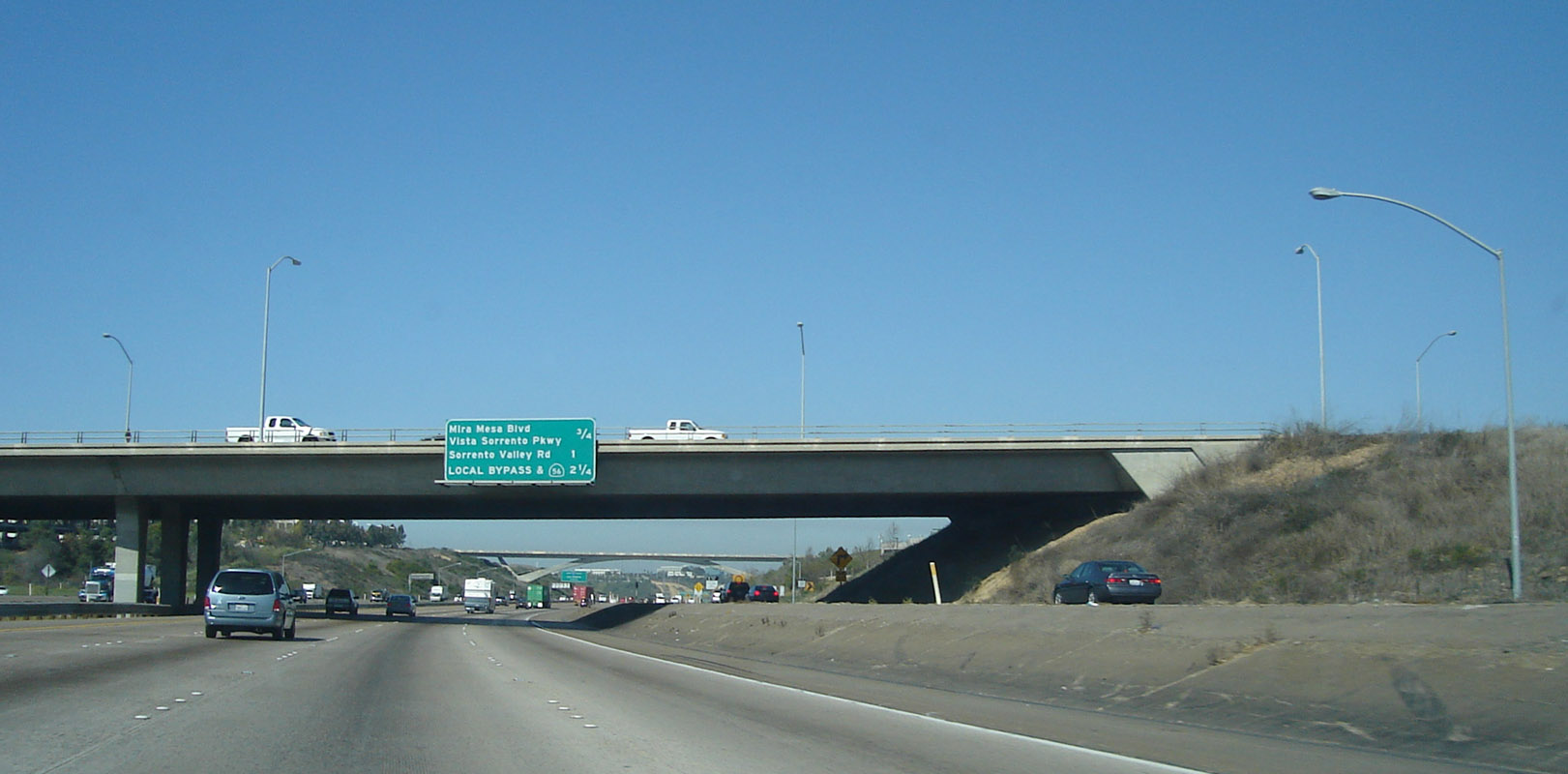 Miramar Road overpass from I-805 Northbound.